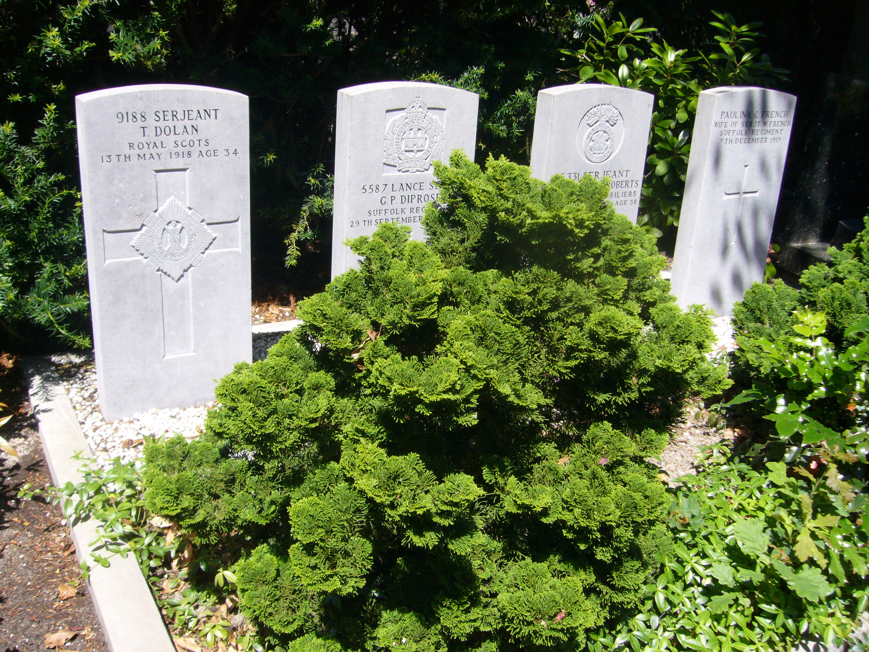 Common Wealth war graves in The Hague at St Petrus Banden cemetry, Sergeant T. Dolan (Royal Scots), sergeant William Owen Roberts (Royal Welsh Fusiliers), sergeant G.P. Diprose (Suffolk Regiment), Paulina C. French, wife of sergeant Jt. W. French (Suffolk Regiment).